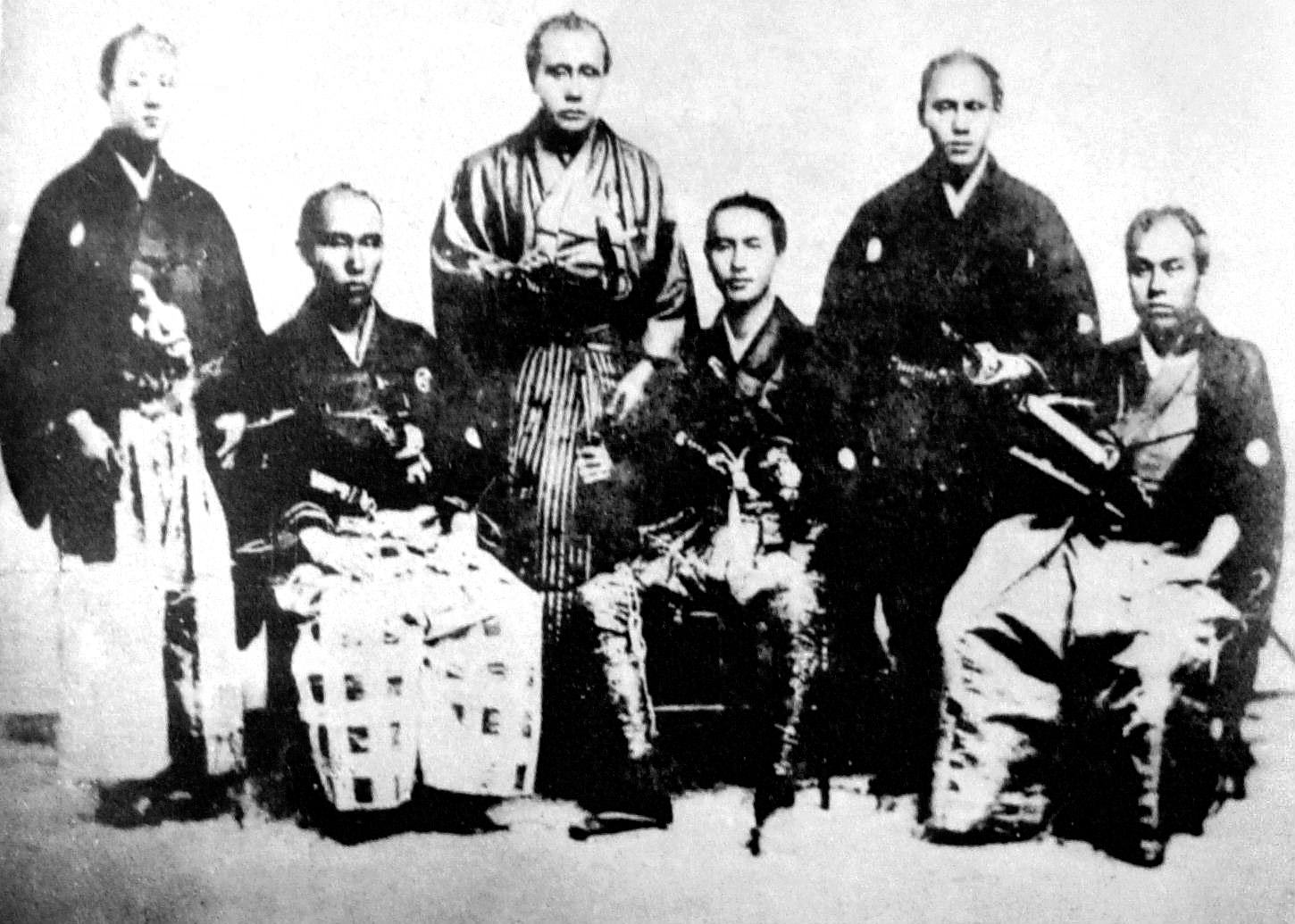 Sailors of the Kanrin Maru, the Embassy's escort; from right, Fukuzawa Yukichi, Okada Seizō, Hida Hamagorō, Konagai Gohachirō, Hamaguchi Yoemon, Nezu Kinjirō.